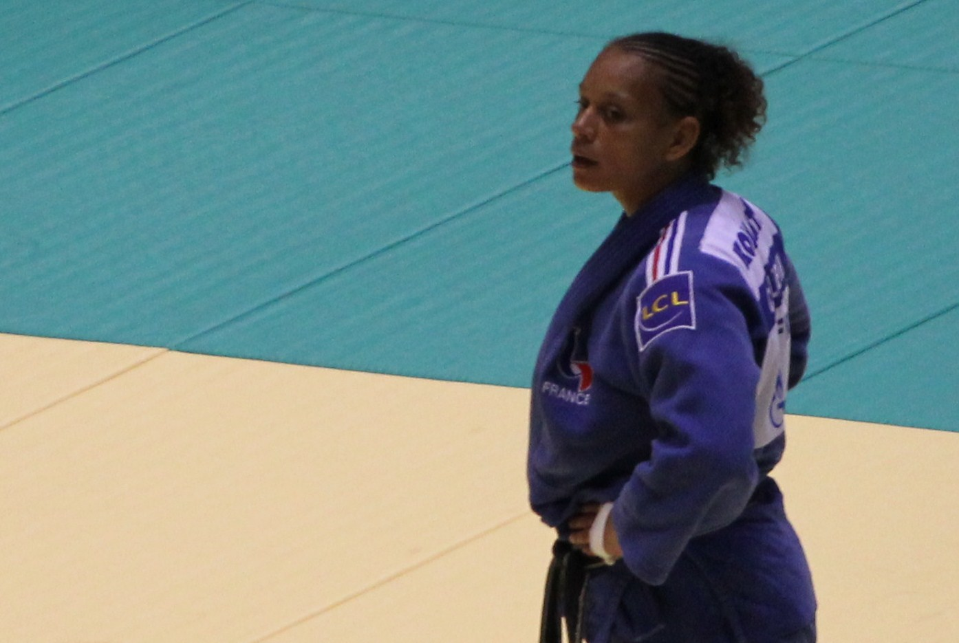 French judoka Céline Lebrun during the 2010 World Judo Championships held in Tokyo, Japan